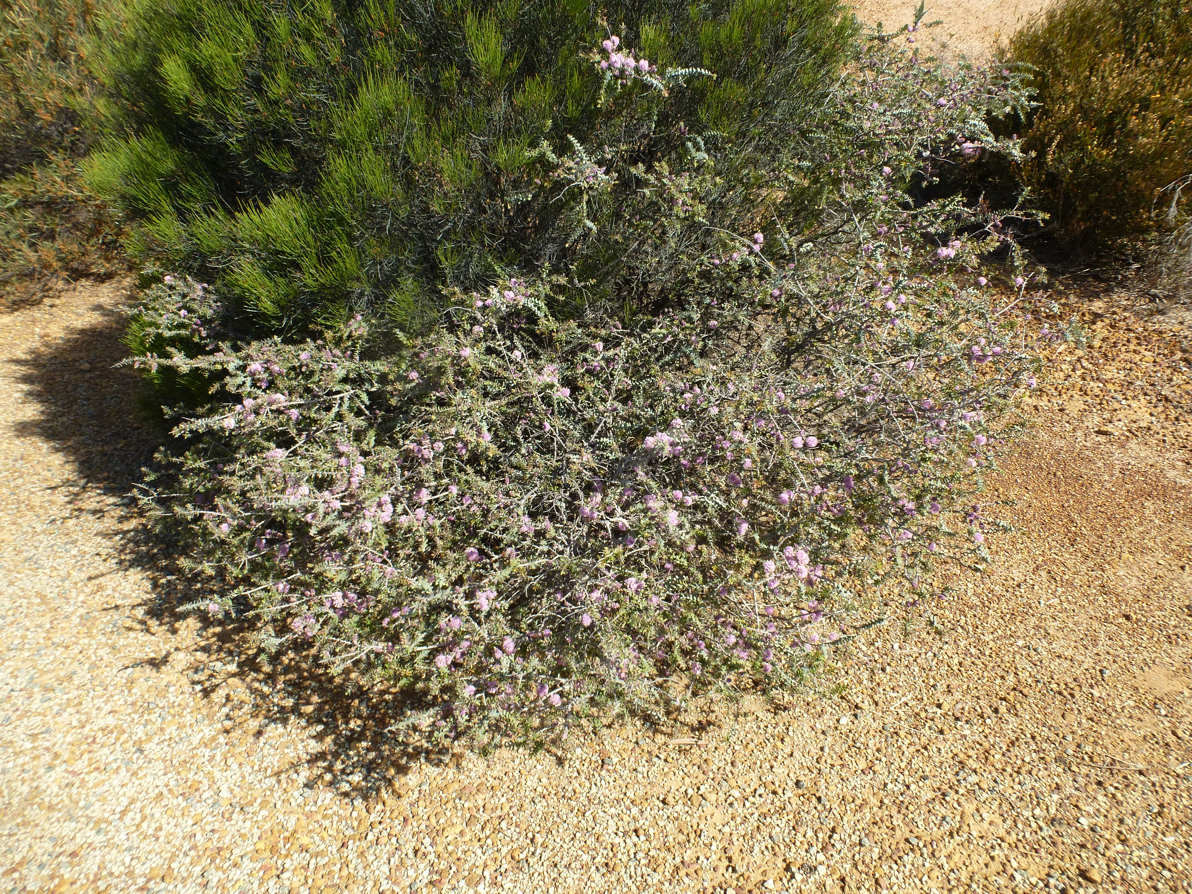 Melaleuca spicigera growing 20 km east of Hyden